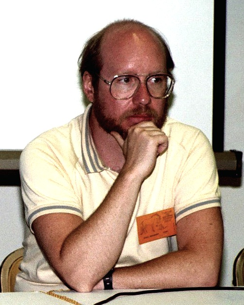 Photo of Steve Englehart at the San Diego Comic Convention.